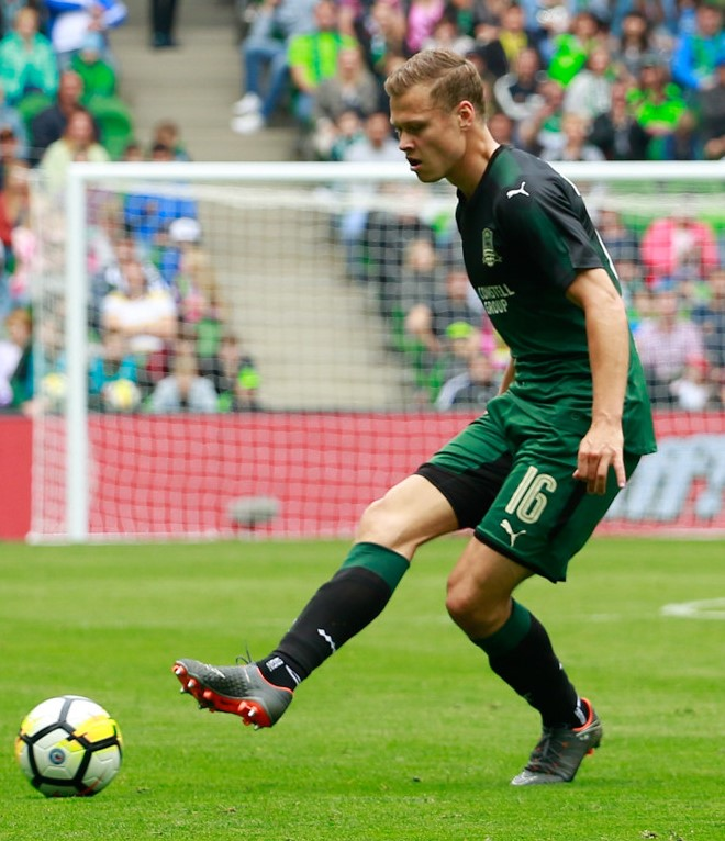 Viktor Claesson